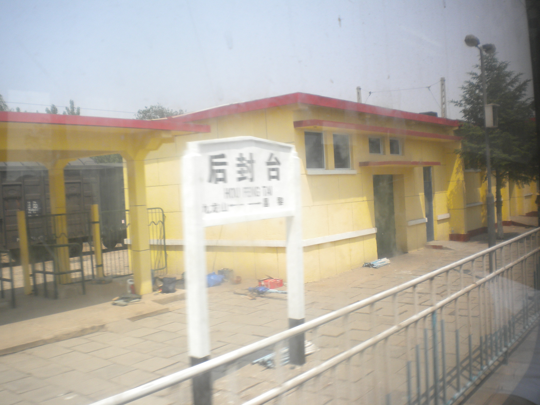 Taken from T5687 - um, in Changli, Qinhuangdao.